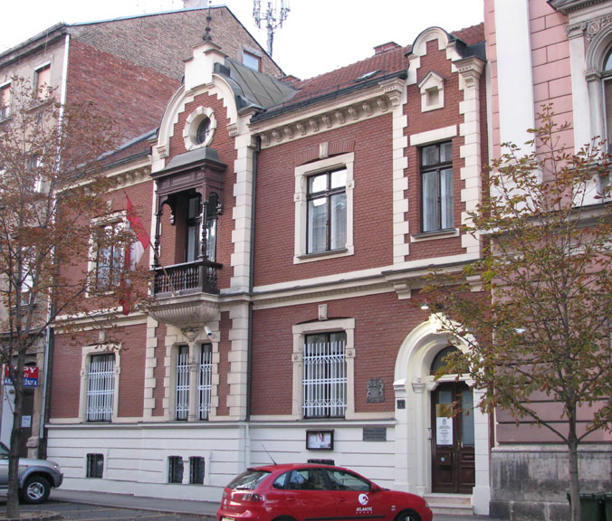 Canadian Embassy in Zagreb, CroatiaHrvatski: Kanadsko veleposlanstvo u Zagrebu